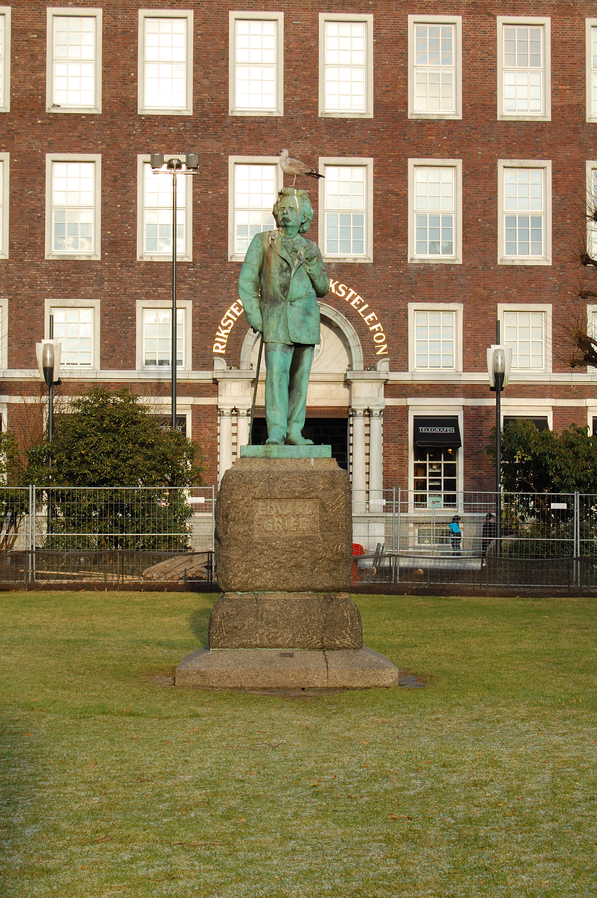 Statue of Edvard Grieg in Bergen, Norway. Made by Ingebrigt Vik